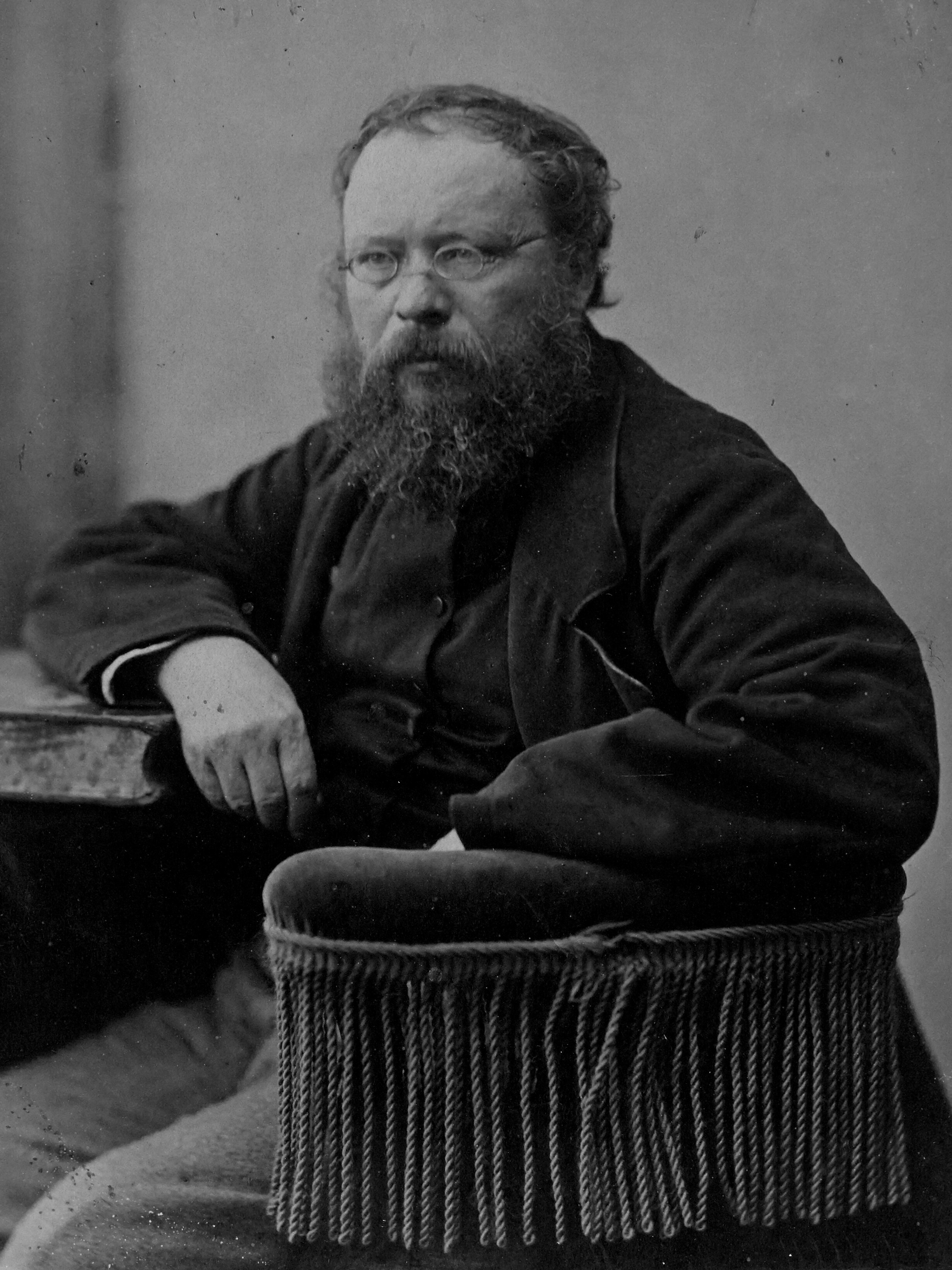 Photography of Pierre-Joseph Proudhon